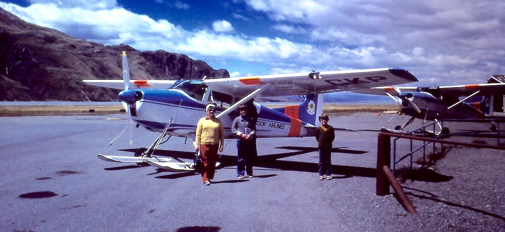 Awaiting a scenic flight on a Mount Cook Airlines ski-plane in January 1977 at the Mt Cook Aerodrome near the Hermitage